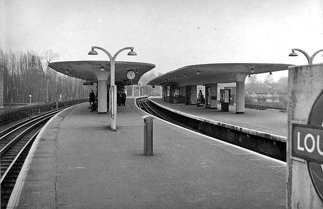 Loughton Station. View NE, towards Epping and Ongar. This is a new station, opened 28/4/40 in place of original station on the ex-Great Eastern London - Stratford - Epping - Ongar line. This line was electrified and transferred from the LNER to the LPTB (Central Line), Stratford - Leytonstone from 5/5/47, on to Loughton on 21/11/48, terminating here until electric trains extended to Epping from 25/9/49.